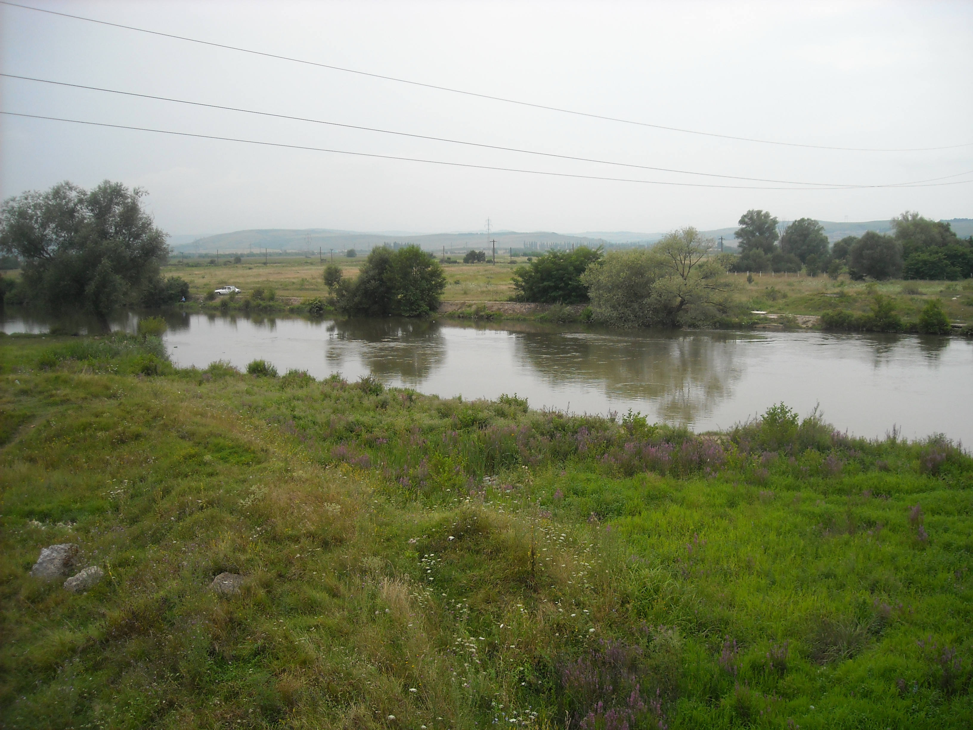 the Strei river at Călan